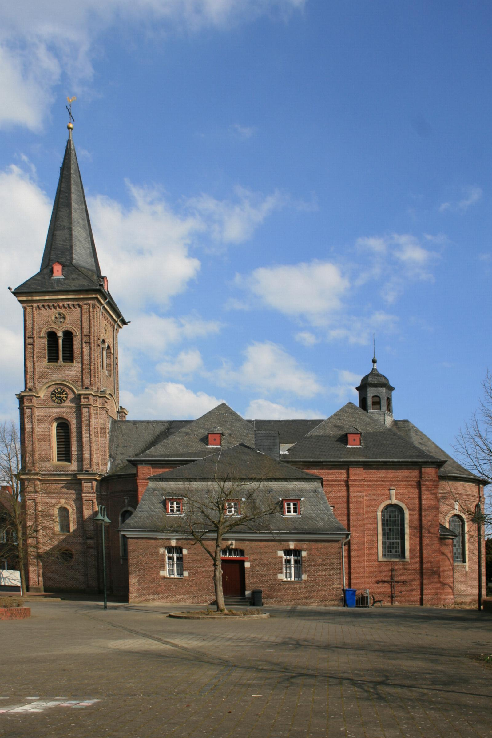 This is a photograph of an architectural monument.